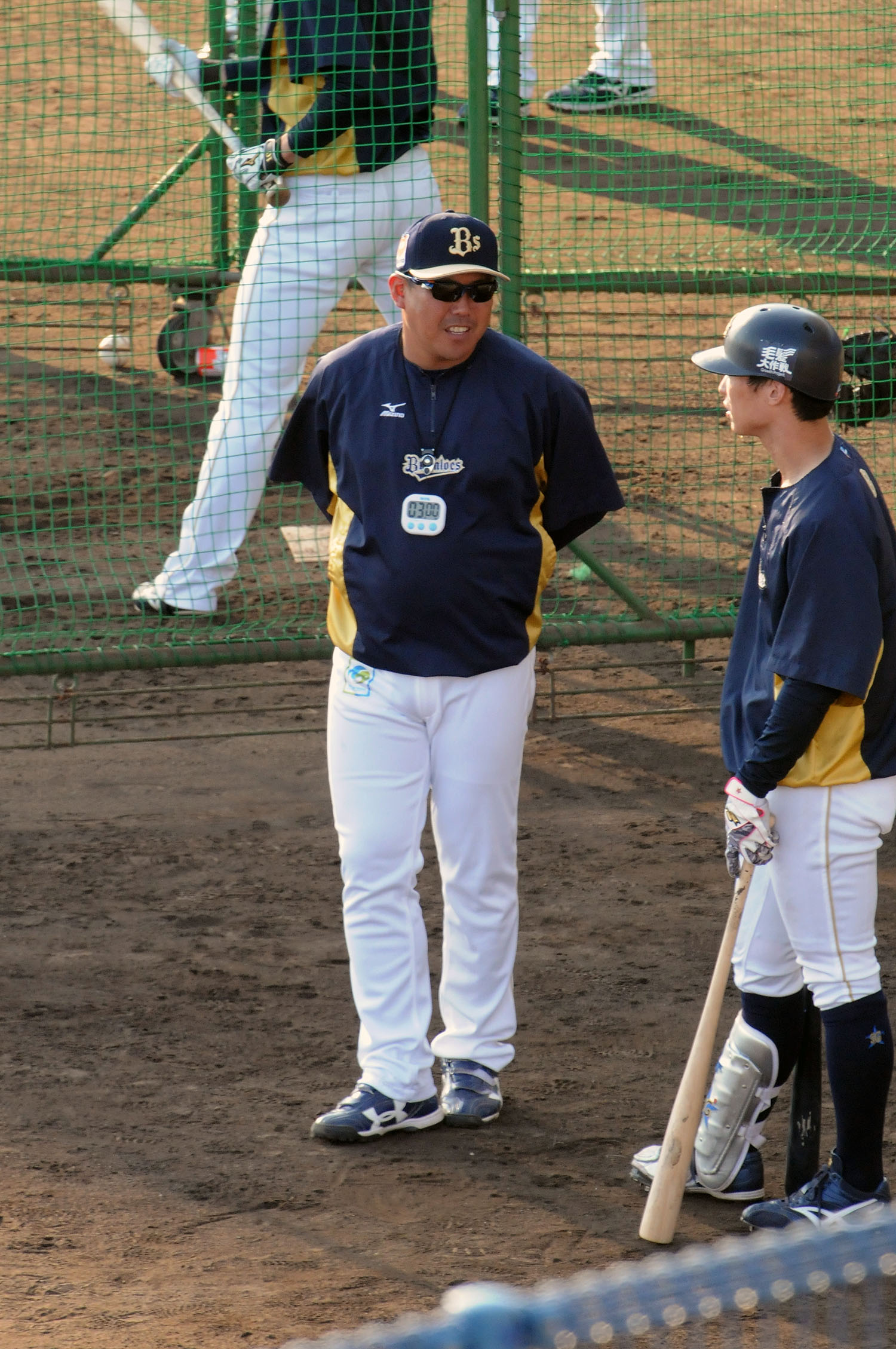 Hirotoshi Kitagawa, coach of the Orix Buffaloes, at Akita Prefectural Baseball Stadium